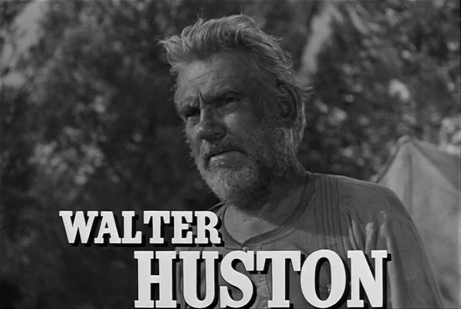 Cropped screenshot of Walter Huston from the trailer for the film The Treasure of the Sierra Madre.